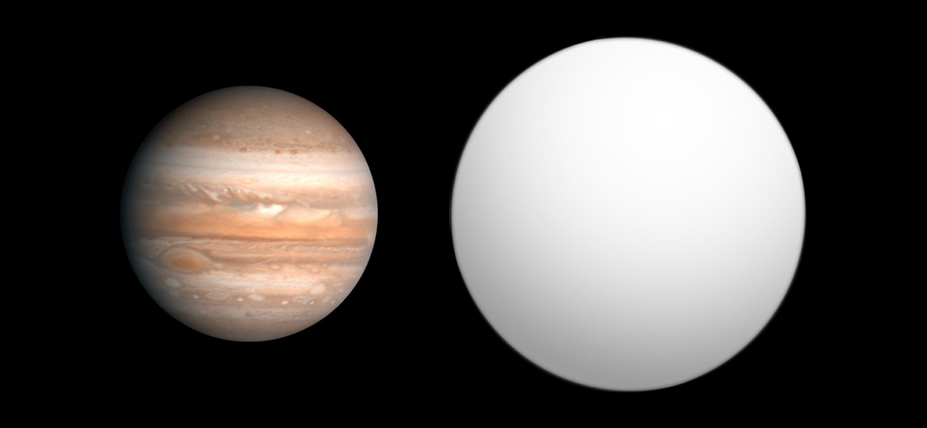 Comparison of best-fit size of the exoplanet HD 209458 b with the Solar System planet Jupiter, as reported in the Extrasolar Planets Encyclopaedia[1] as of 2010-10-03. ↑ Extrasolar Planets Encyclopaedia (2010-09-30). Retrieved on 2010-10-03.